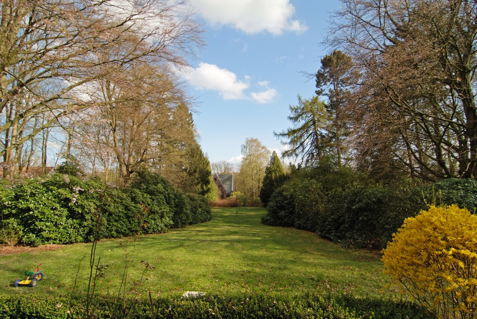 Cultural monument No. 911 in Hamburg, Germany